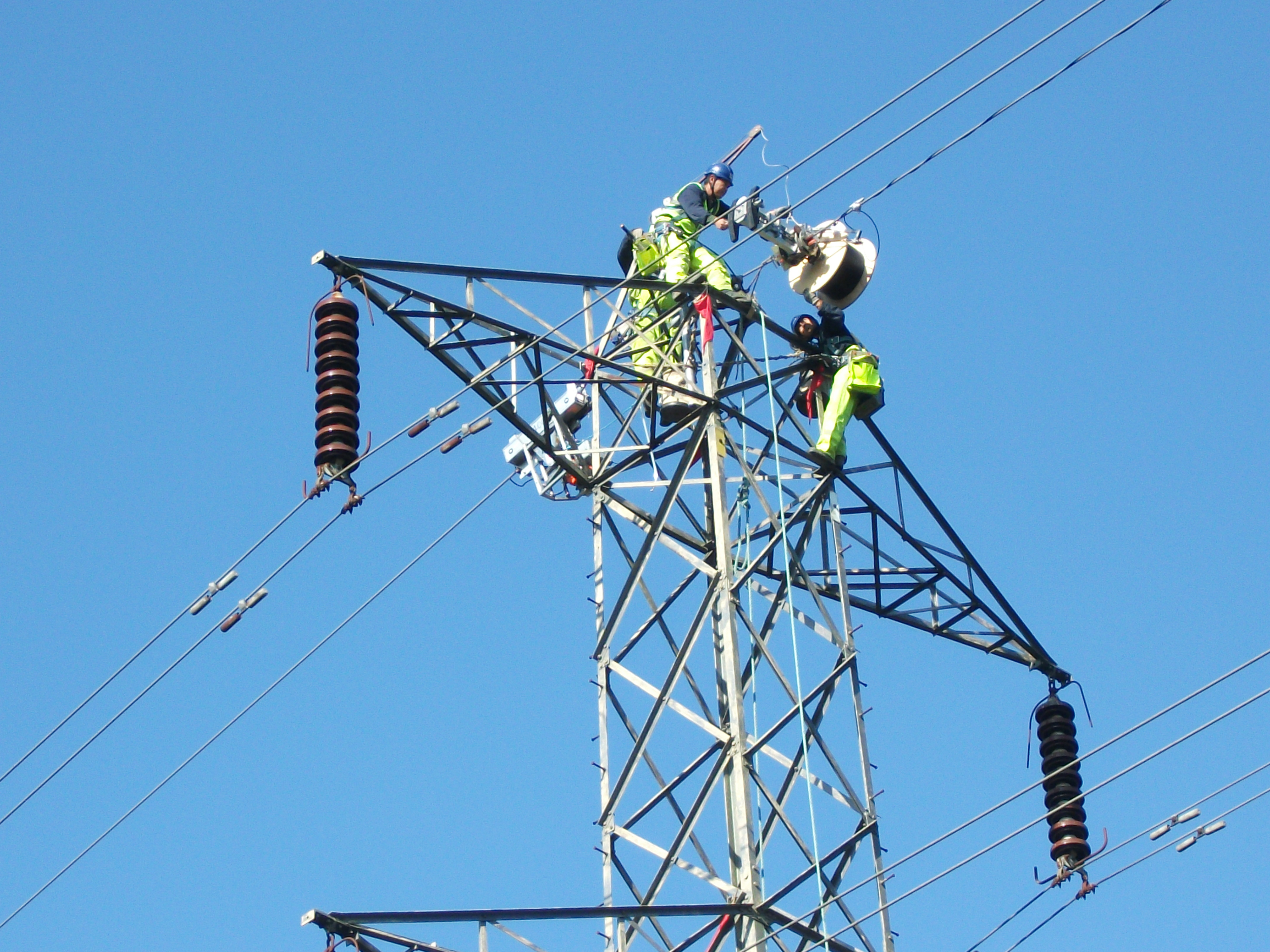 Cable riggers atop a pylon engaged in adding a data cable wound around the top tower stay cable. The cable is wound on by a travelling machine which rotates a cable drum around the support cable as it goes. This travels under its own power from tower to tower, where it is dismantled, moved across to the opposite side from where it travels on. In the picture the motor unit has been moved across but the cable drum is still awaiting hoisting over the tower. Sussex, UK.